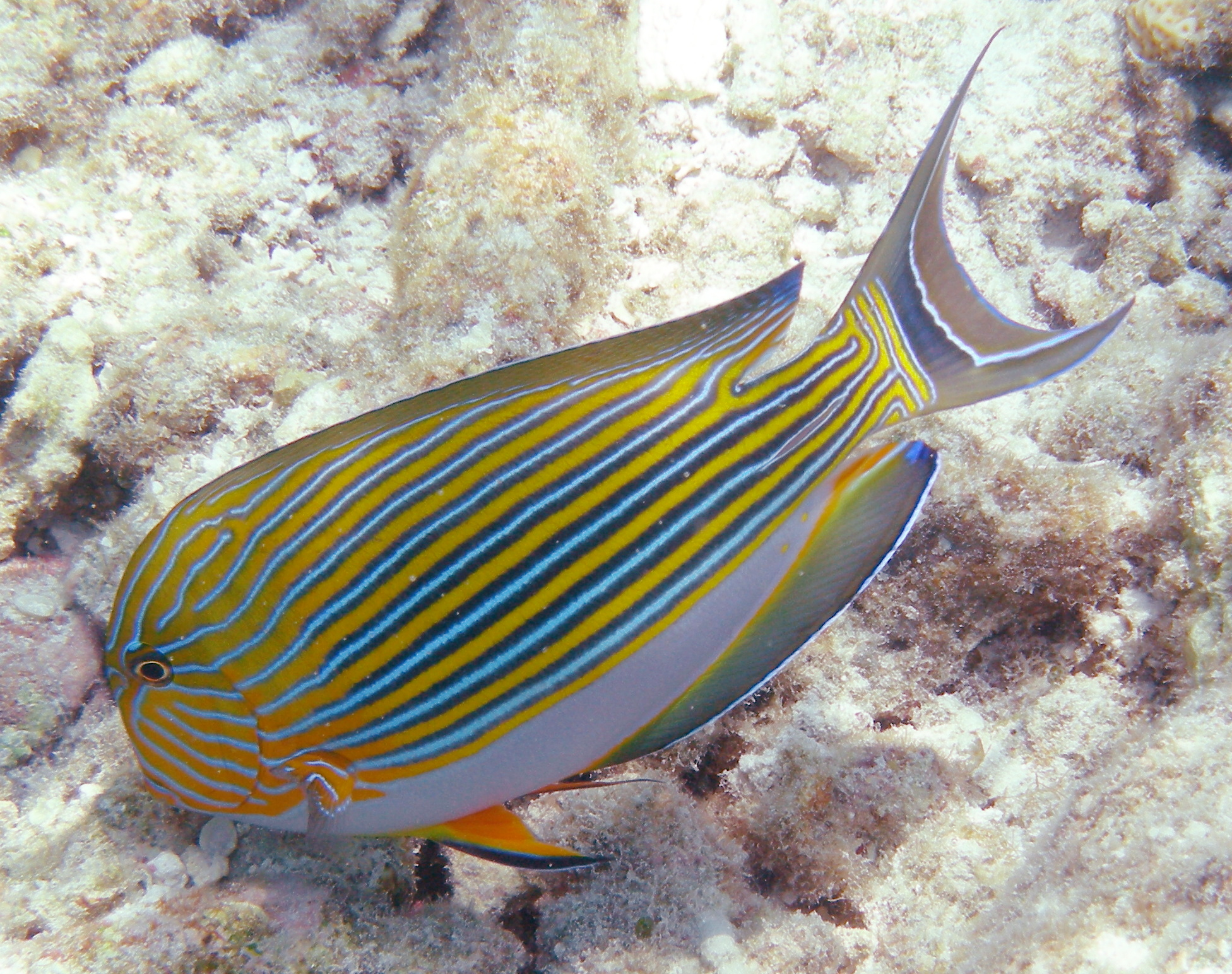 Acanthurus lineatus